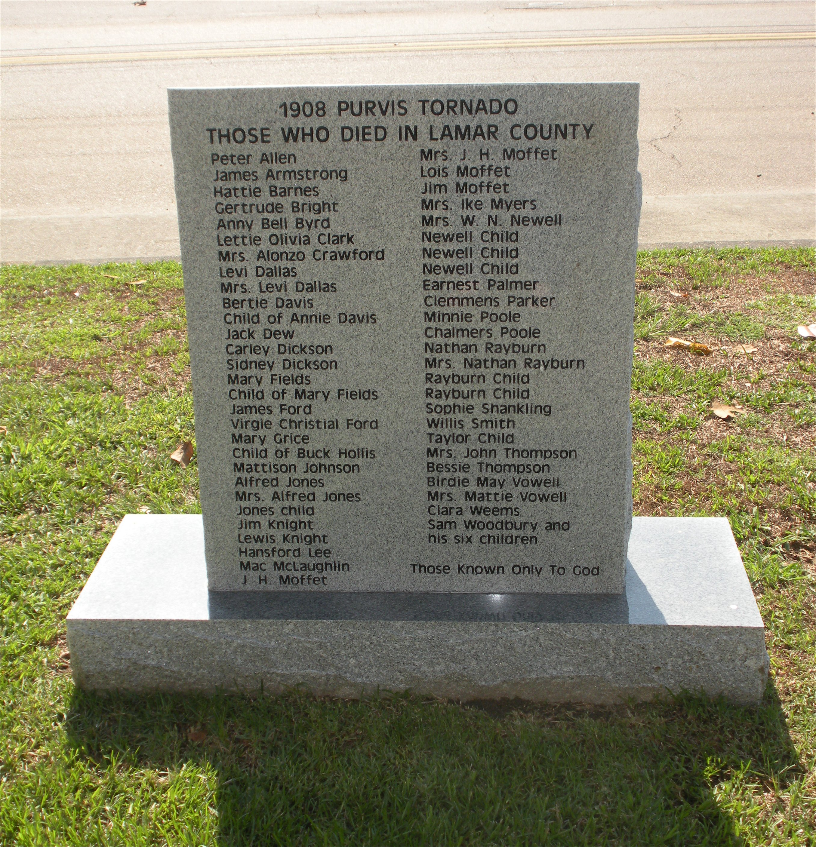 Back of Tornado Marker.